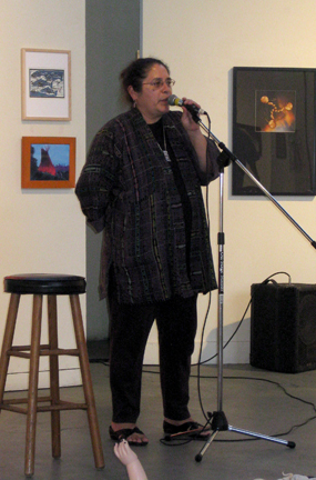 Janeen Antoine (Sicangu Lakota), curator, Native American art history teacher, and director of American Indian Contemporary Arts